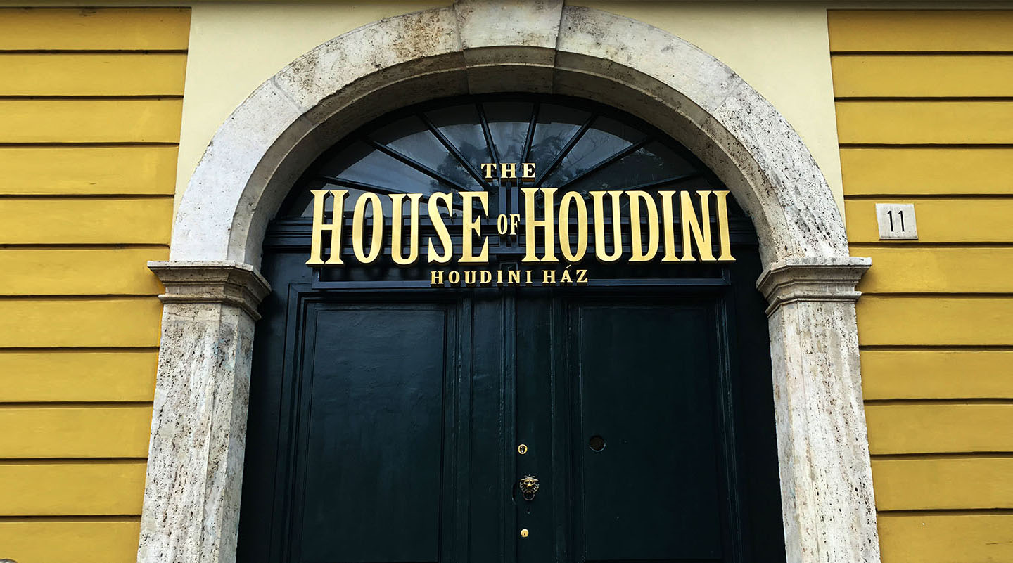 Entrance of The House of Houdini in Budapest, Hungary